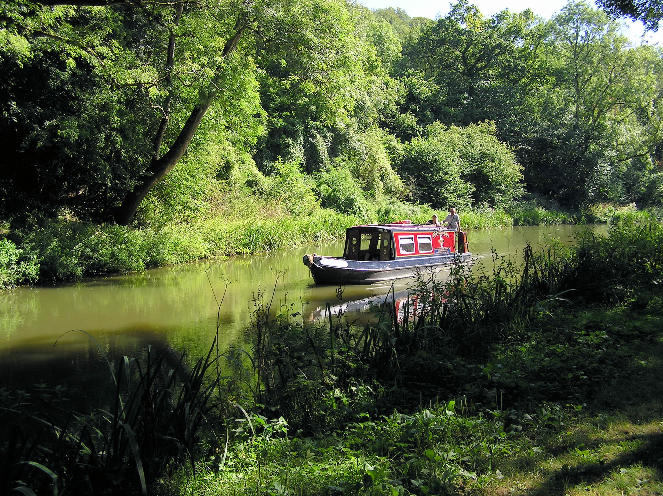 The Kennet and Avon Canal, about 200 metres on the Devizes side of the Dundas Aqueduct, Wiltshire, England.